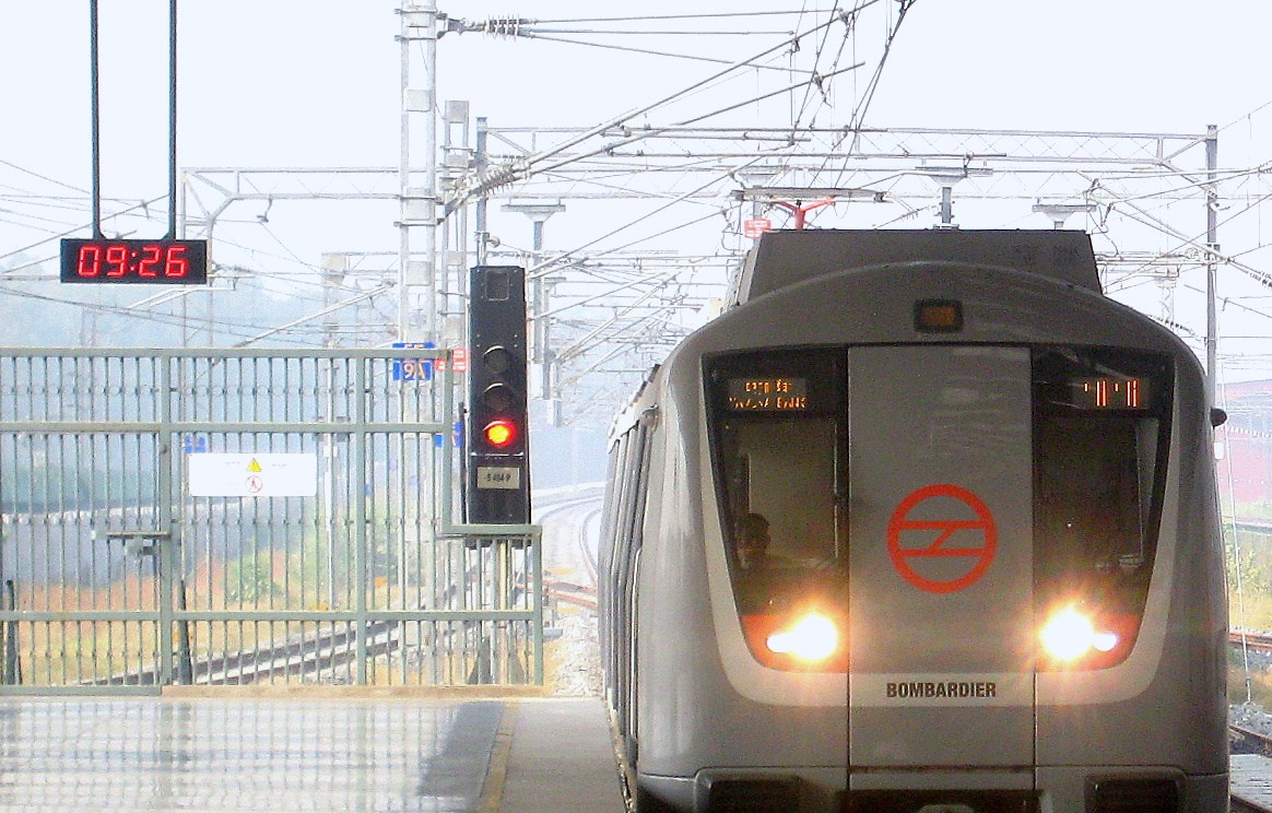 A new train, made in Germany by Bombardier, enters the Delhi Metro station at Yamuna Bank.